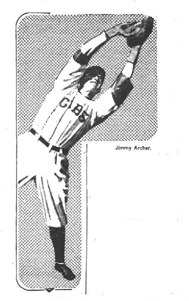 Jimmy Archer making a catch, playing for the Chicago Cubs in 1915.